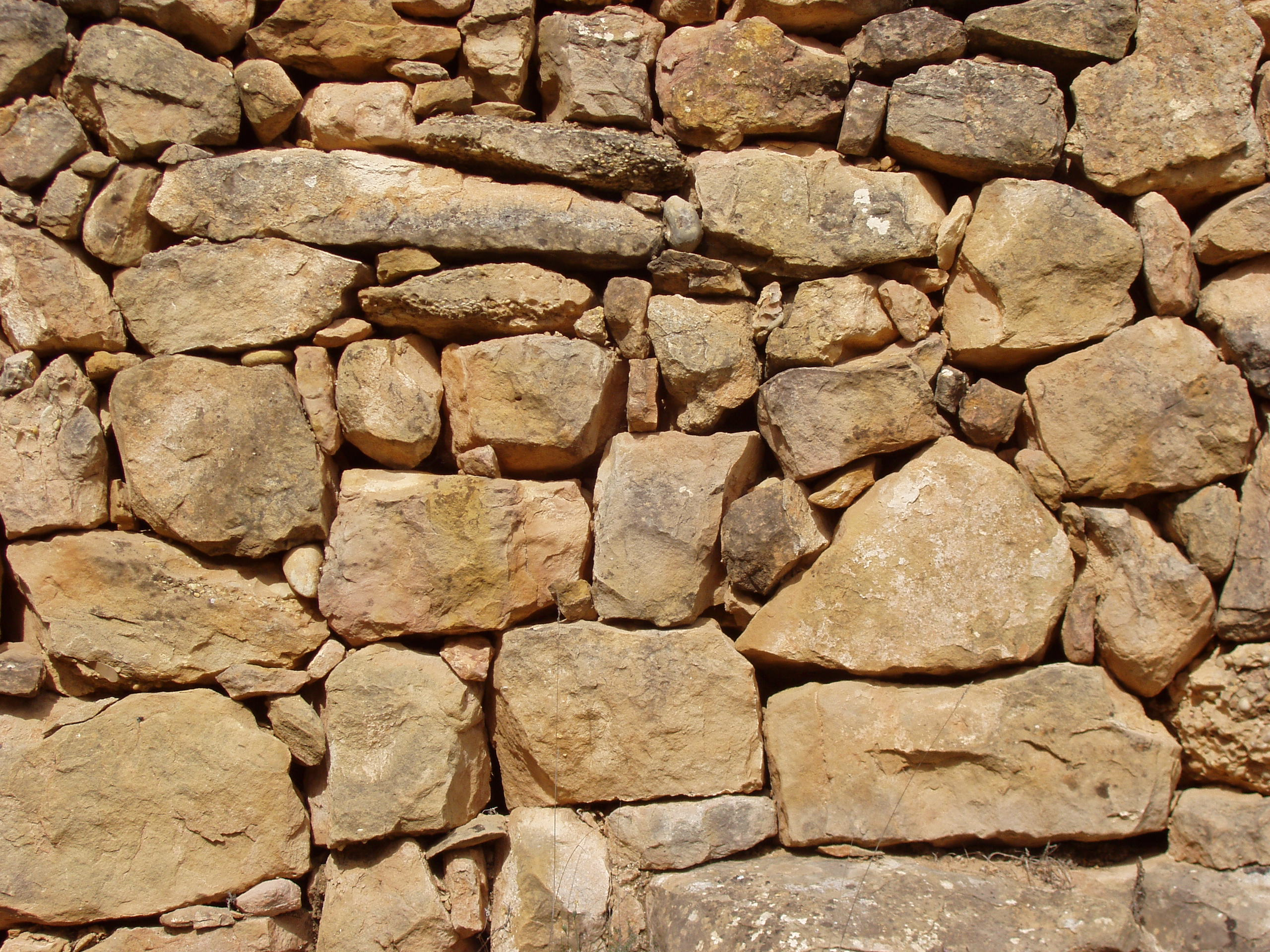 Dry stone terrace wall in the county of Les Garrigues, Catalonia.